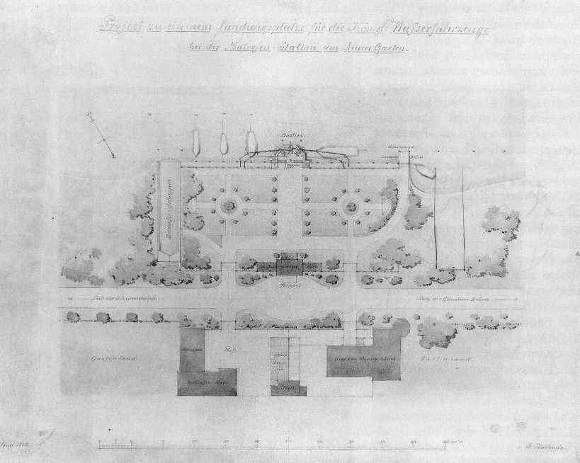 Map of the area of a sailors' station in Potsdam, Germany